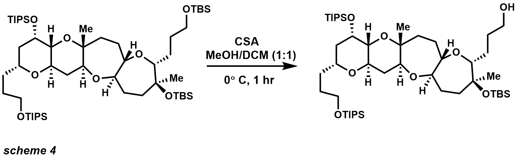 TBS selective cleavage